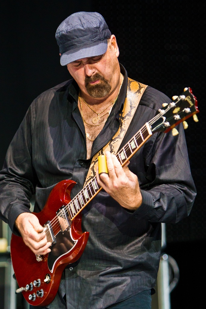 Bryan Bassett performing with Foghat on the Rock Legends Cruise II, January 11, 2013.